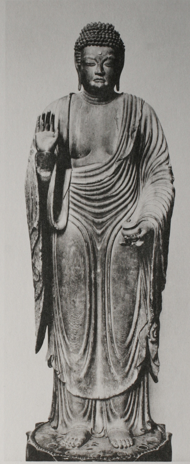 Yakushi Nyorai(Bhaisajyaguru), Heian period, early 9th century wood , Japanese nutmeg wood, single tree, natural wood surface, 164.8 cm, Nara Gangoji Hondo, Gangō-ji, Nara